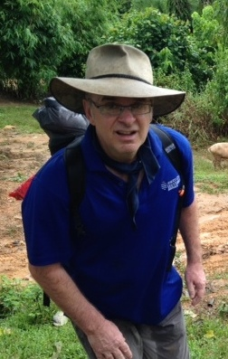 Chilton searching for a rediscovered bird in the jungles of the Philippines in 2013.